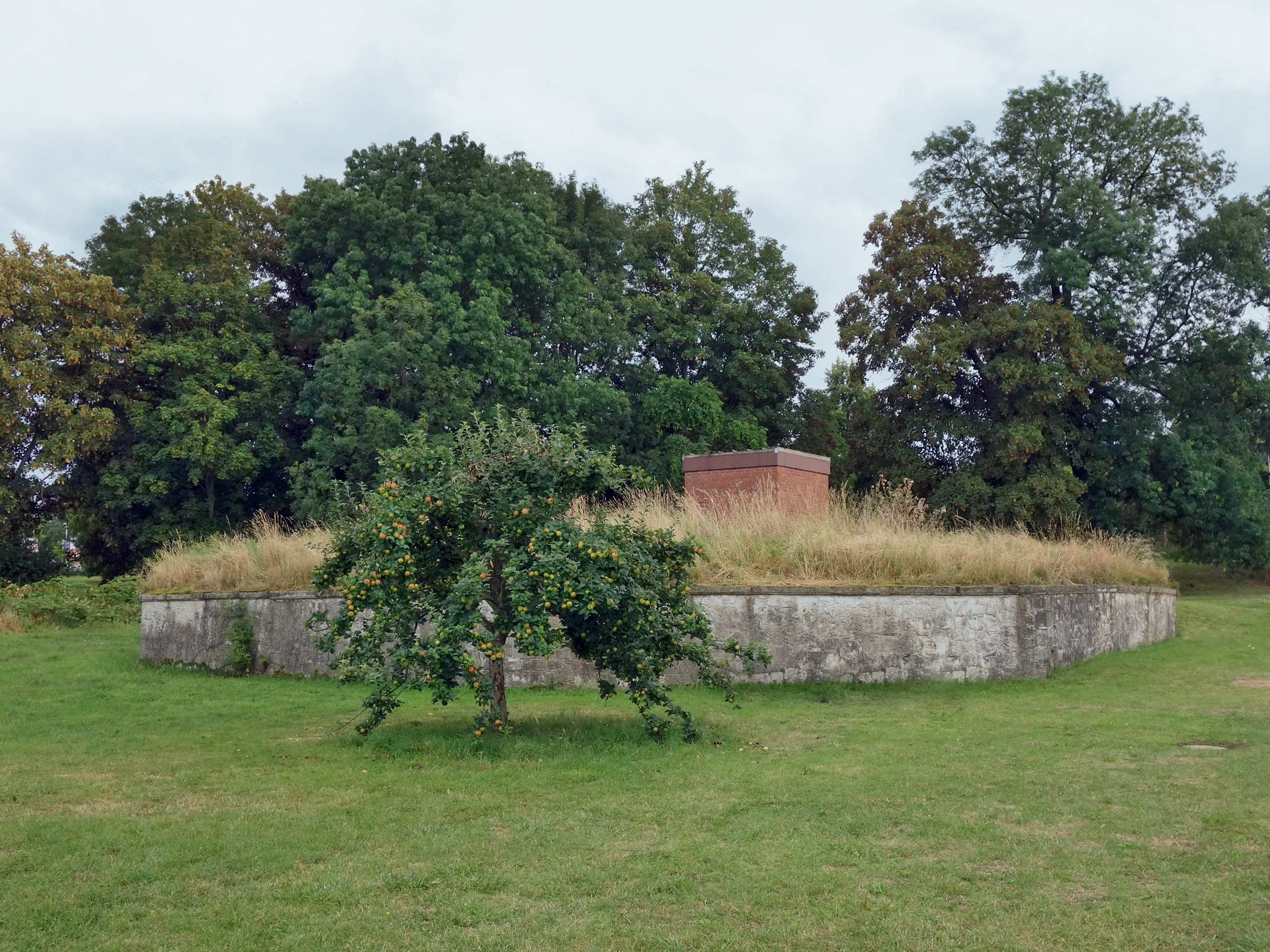 One of the two wells of the water supply plant Ortsschlump in Hildesheim, Lower-Saxony, Germany.